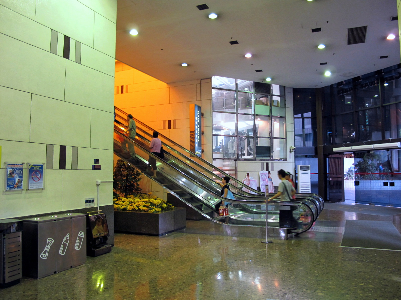 Sceneway Plaza Level 1 Entrance